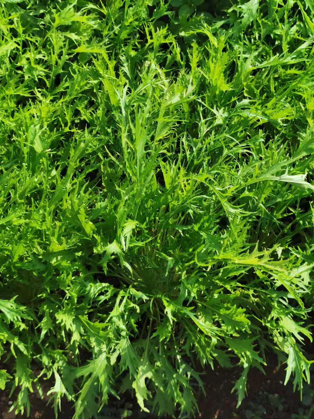 Mizuna/Brassica rapa subsp. nipposinica. Taichung, Taaiwan.